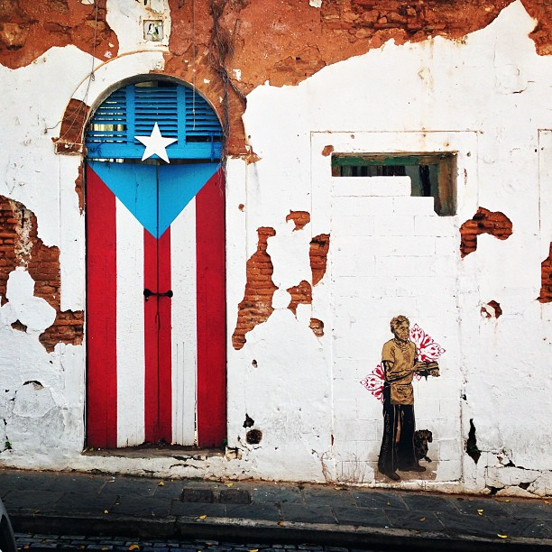 Painted door and street art in Old San Juan